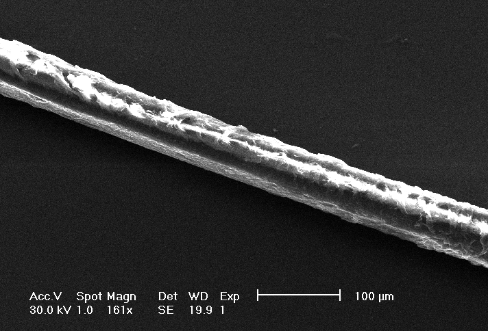 Picture of a human hair, taken with a scanning electron microscope. Mode: secondary electrons.